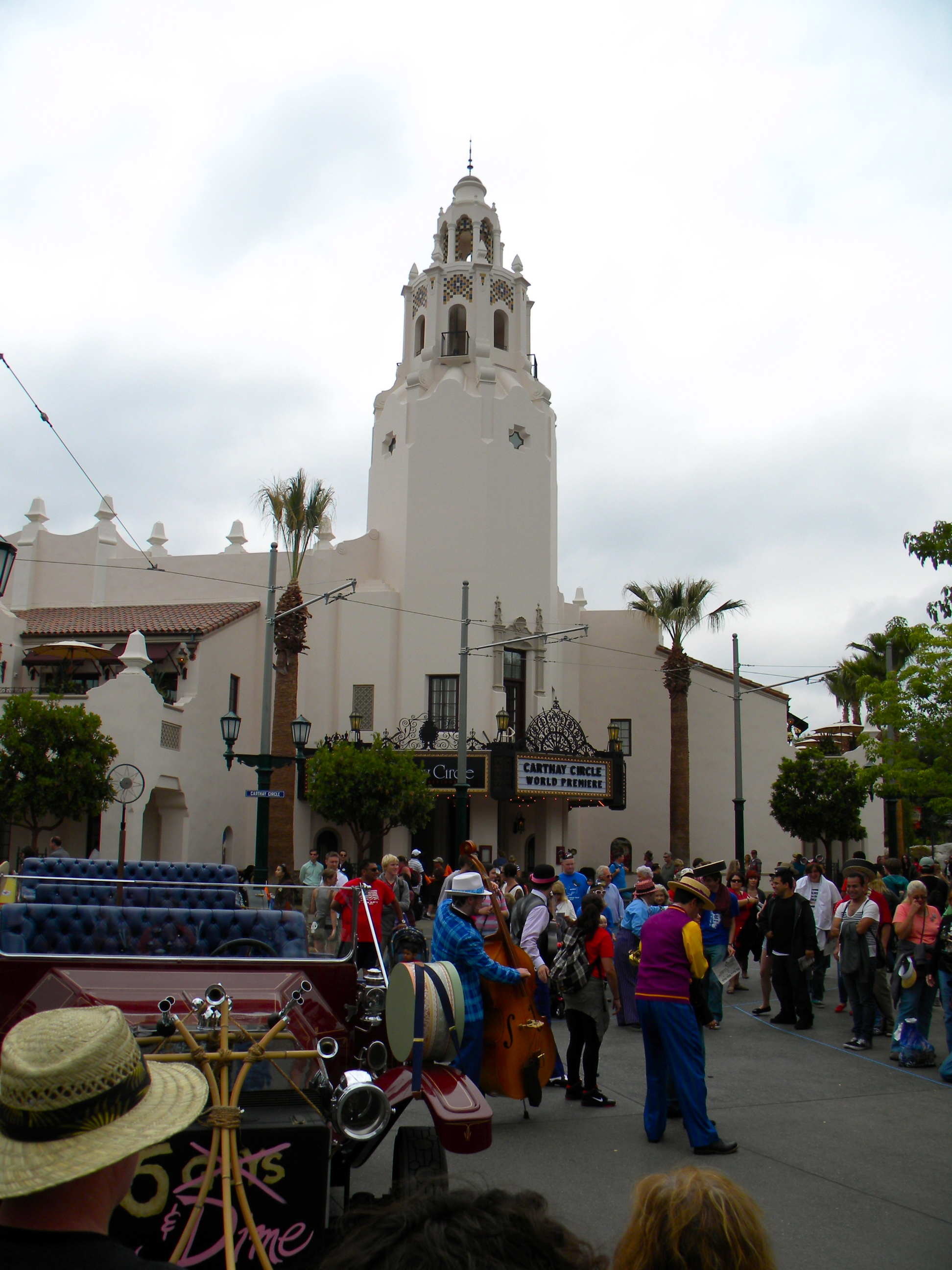 Carthay Circle at Disney California Adventure